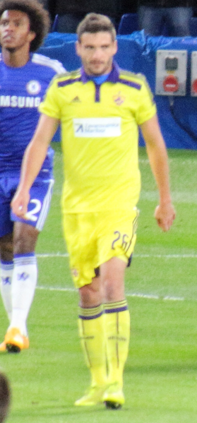 Chelsea 6 Maribor 0 Champions League